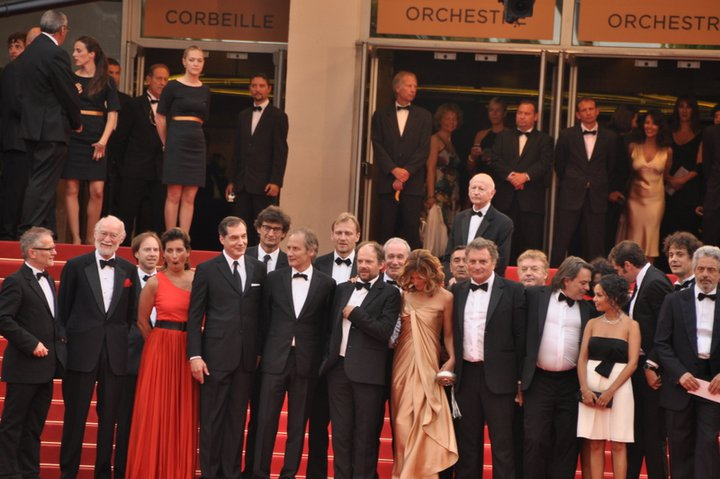 Cast and crew of the film La Conquête at the film's premiere at the 2011 Cannes Film Festival. Front row, from left to right : Hippolyte Girardot, Patrick Rotman, Florence Pernel, director Xavier Durringer, actor Denis Podalydes, guests, actors Mathias Mlekuz, Michel Bompoil, Gergory Fitoussi, Gergory Fitoussi, guest and actress Saida Jawad